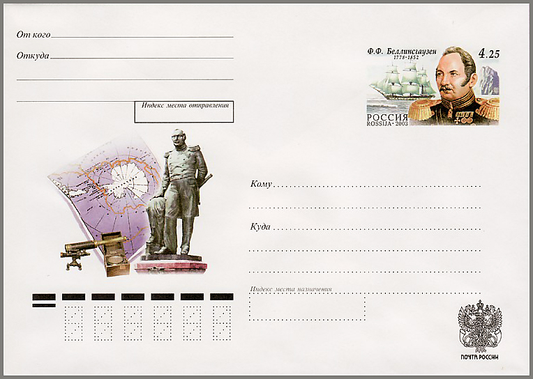 Russia, 2003. Envelope with commemorative stamp (EWCS) № 128. The 225th anniversary of the birth of Admiral F. F. Bellingshausen, navigator and polar explorer. Envelope design by S. Grigoriev.